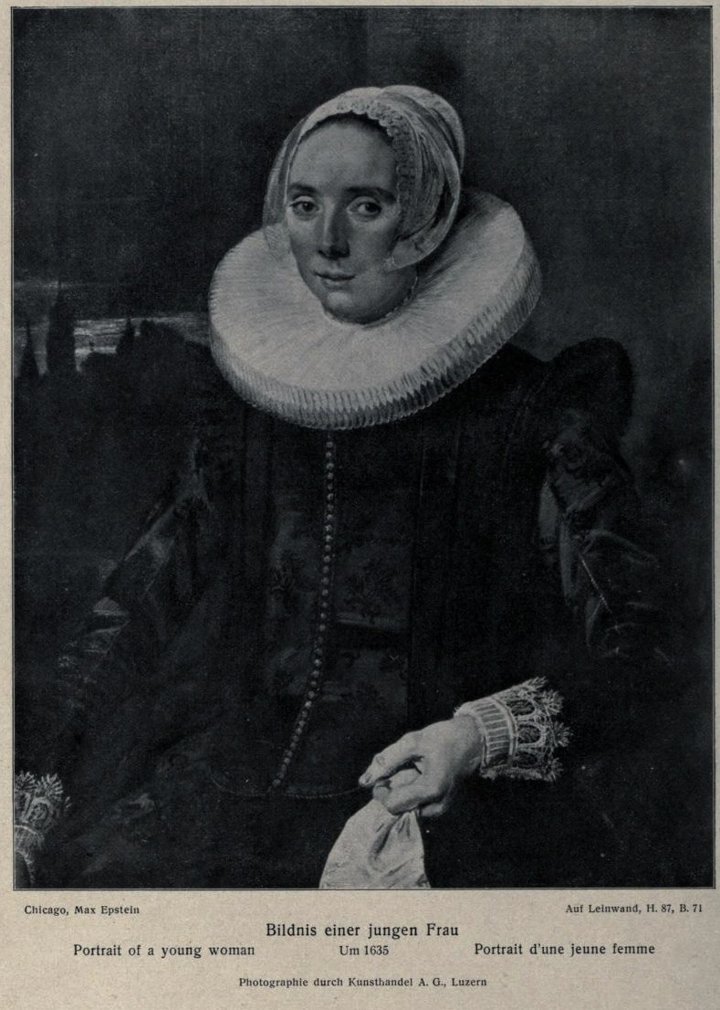 Klassiker der Kunst in Gesamtausgaben, Achtundzwansigster band: Frans Hals, Des Meisters Gemälde : in 322 Abbildungen, 1923 ( Wilhelm Reinhold Valentiner) Portrait of a young woman, ca. 1635, cat. nr. 128, shown as printed in the catalog, before restauration in 1969 removed the landscape on the left and restored the back of the chair underneath.